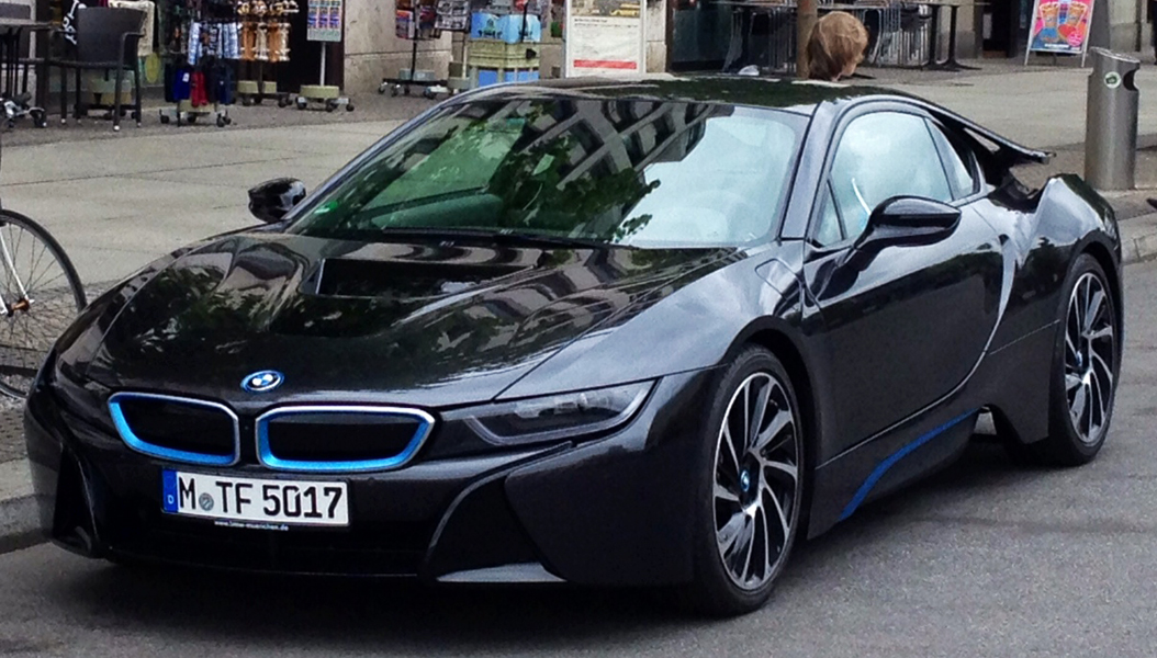 BMW i8 am Pariser Platz, Berlin